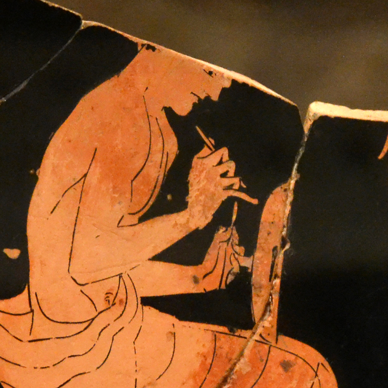 Fragmentary attic red-figure kylix depicting a vase painter decorating a kylix by the Antiphon painter; about 480 BC; Henry Lillie Pierce Found, 1901, Museum of Fine Arts Boston 01.8073